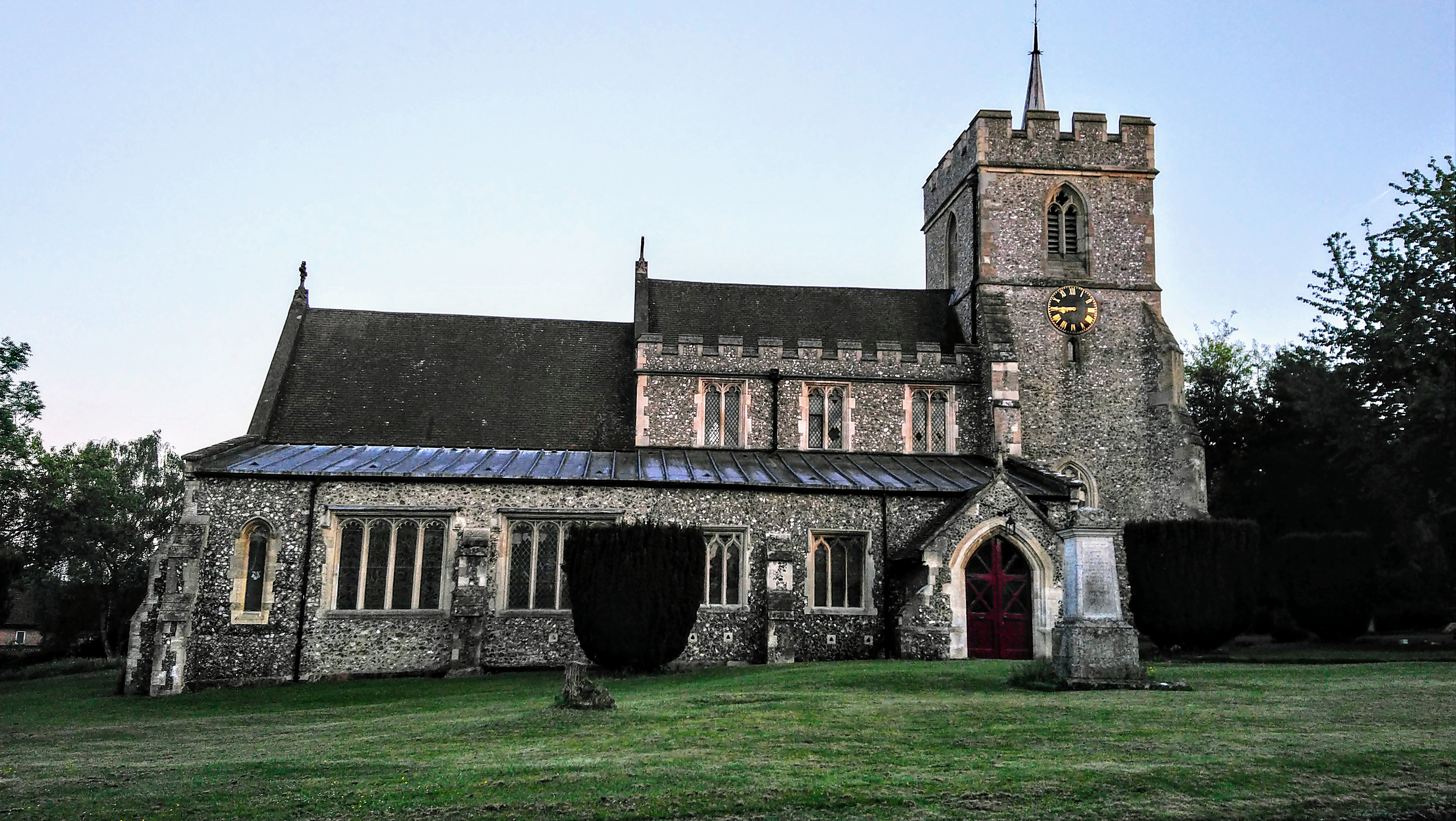 All Saints' parish church, Kings Langley, Hertfordshire, seen from the north